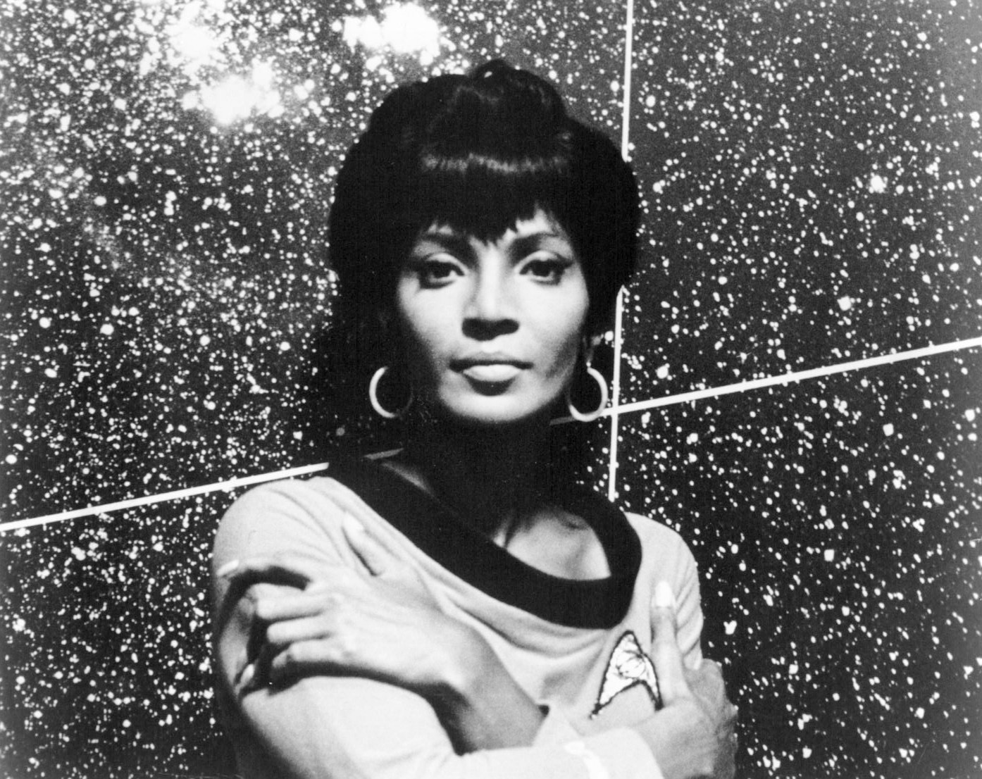 Photo of Nichelle Nichols as Uhura from Star Trek.